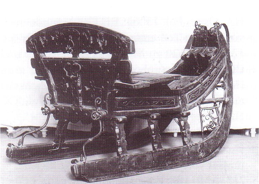 Sled used by Frederick William, Elector of Brandenburg in the Great Sleigh Drive